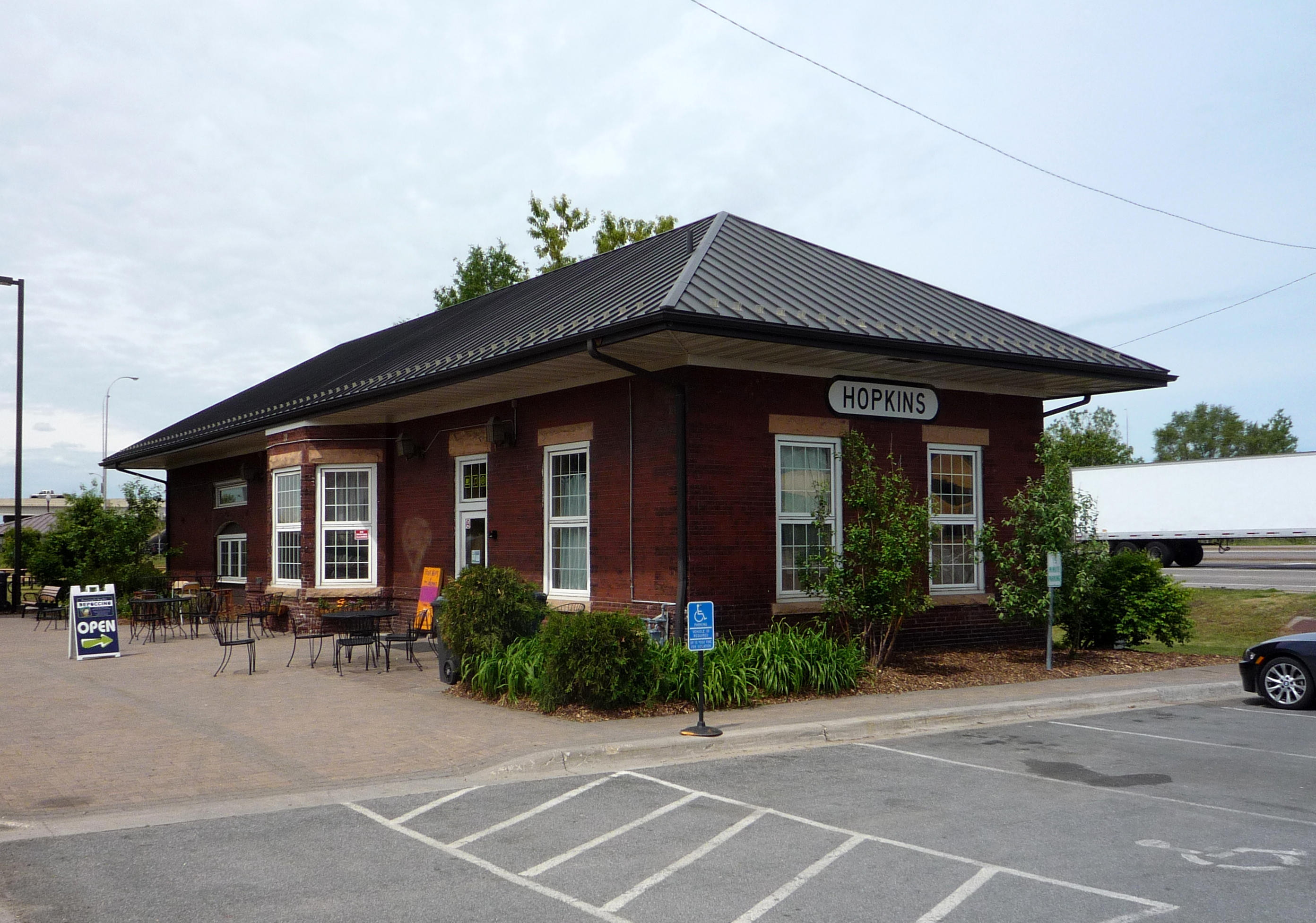 The historic depot, a former rail station that was later redeveloped into a community coffee house, Hopkins, Minnesota, USA. The depot was pivotal in the naming of the town: In 1928, the name of the village was changed to Hopkins after Harley H. Hopkins, who was among its first homesteaders and was the community's first postmaster. Mr. Hopkins allowed the town to build the train depot on his land (now The Depot Coffee House) with the agreement that the train station would say "Hopkins" on it. People getting off the train assumed the name of the town was Hopkins and it stuck.